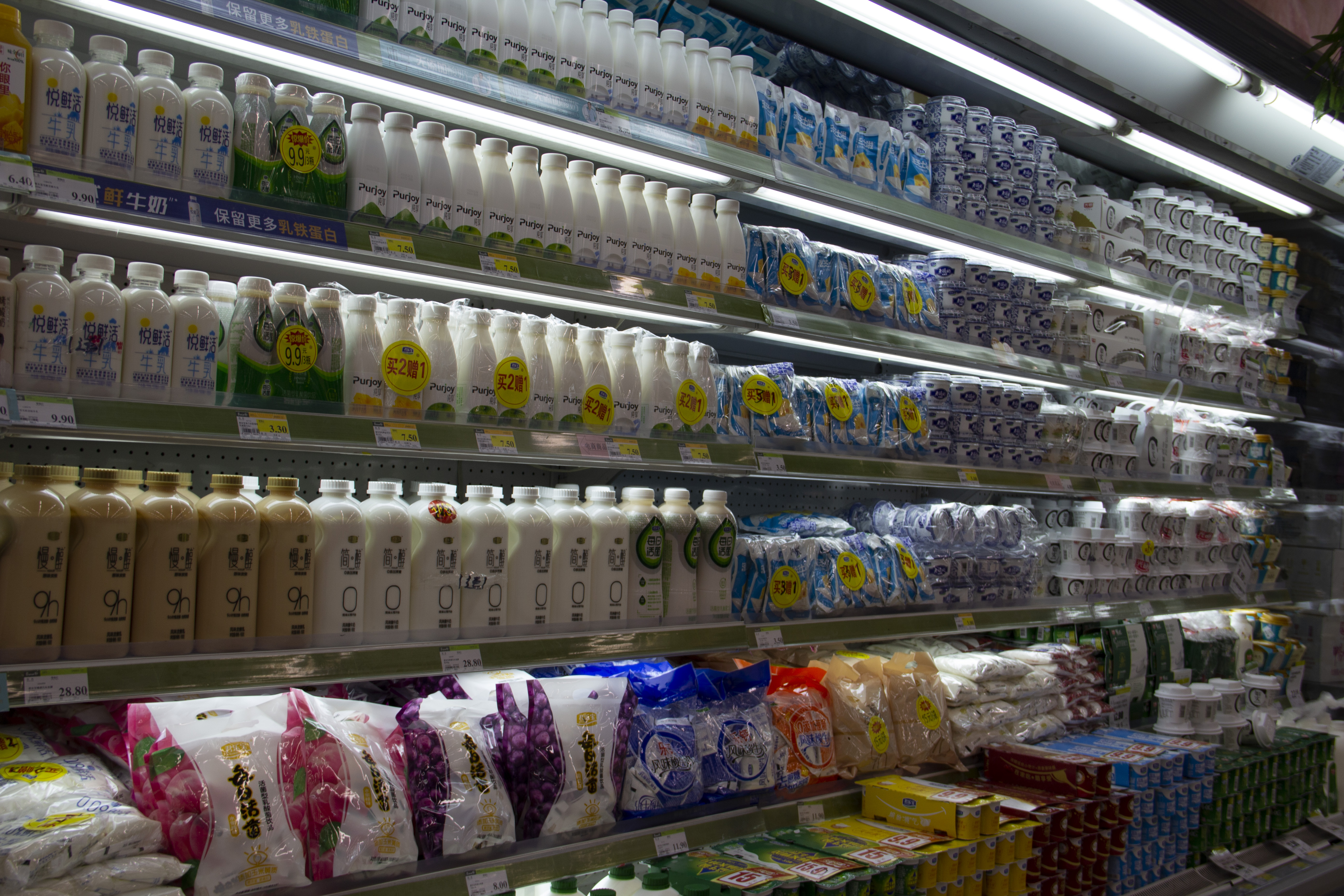 Yogurt on an refrigerator in a supermarket